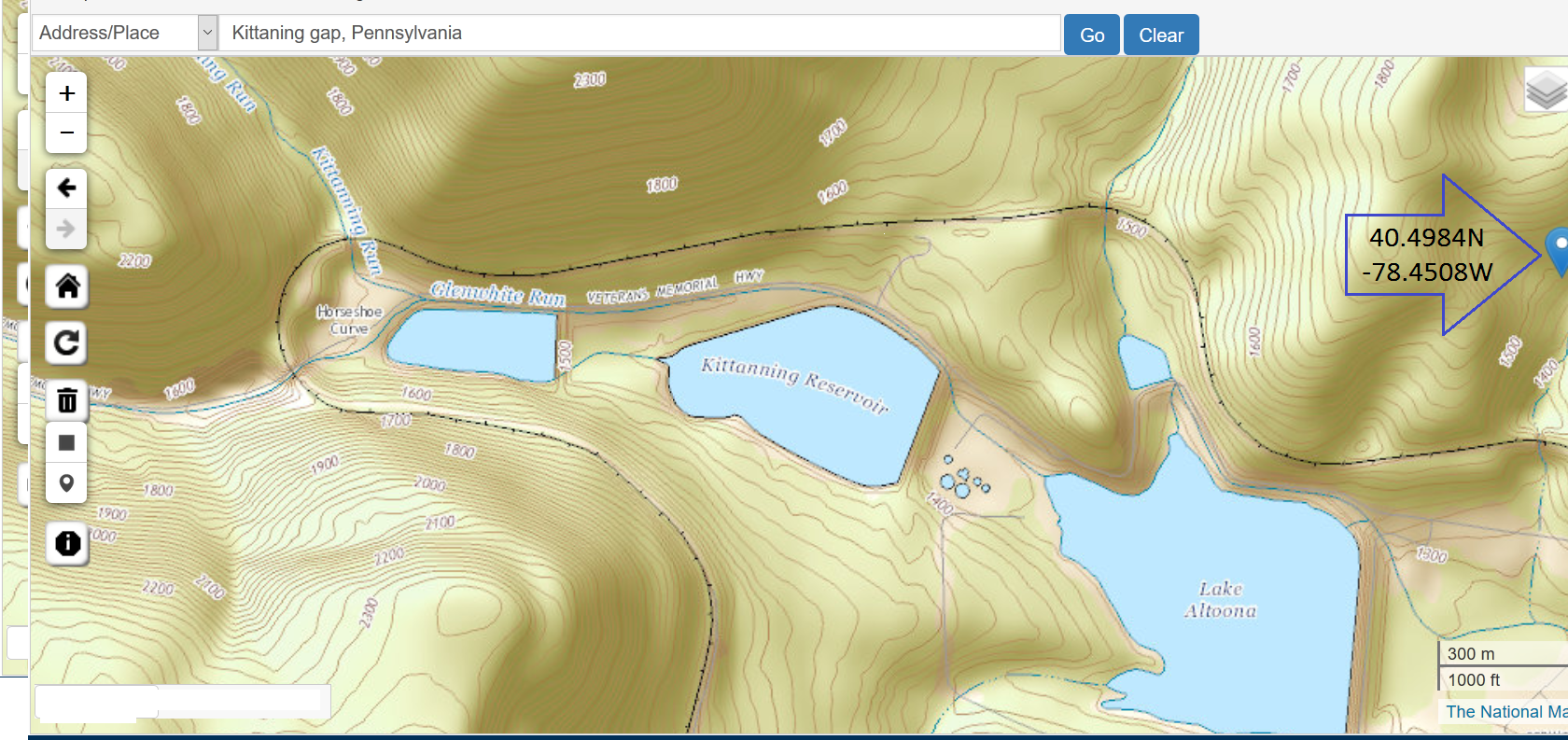 USGS National Map viewer after finding Kittaning Gap, by name Pennsylbania near Altoona, PA and showing the PRR Horseshoe Curve.